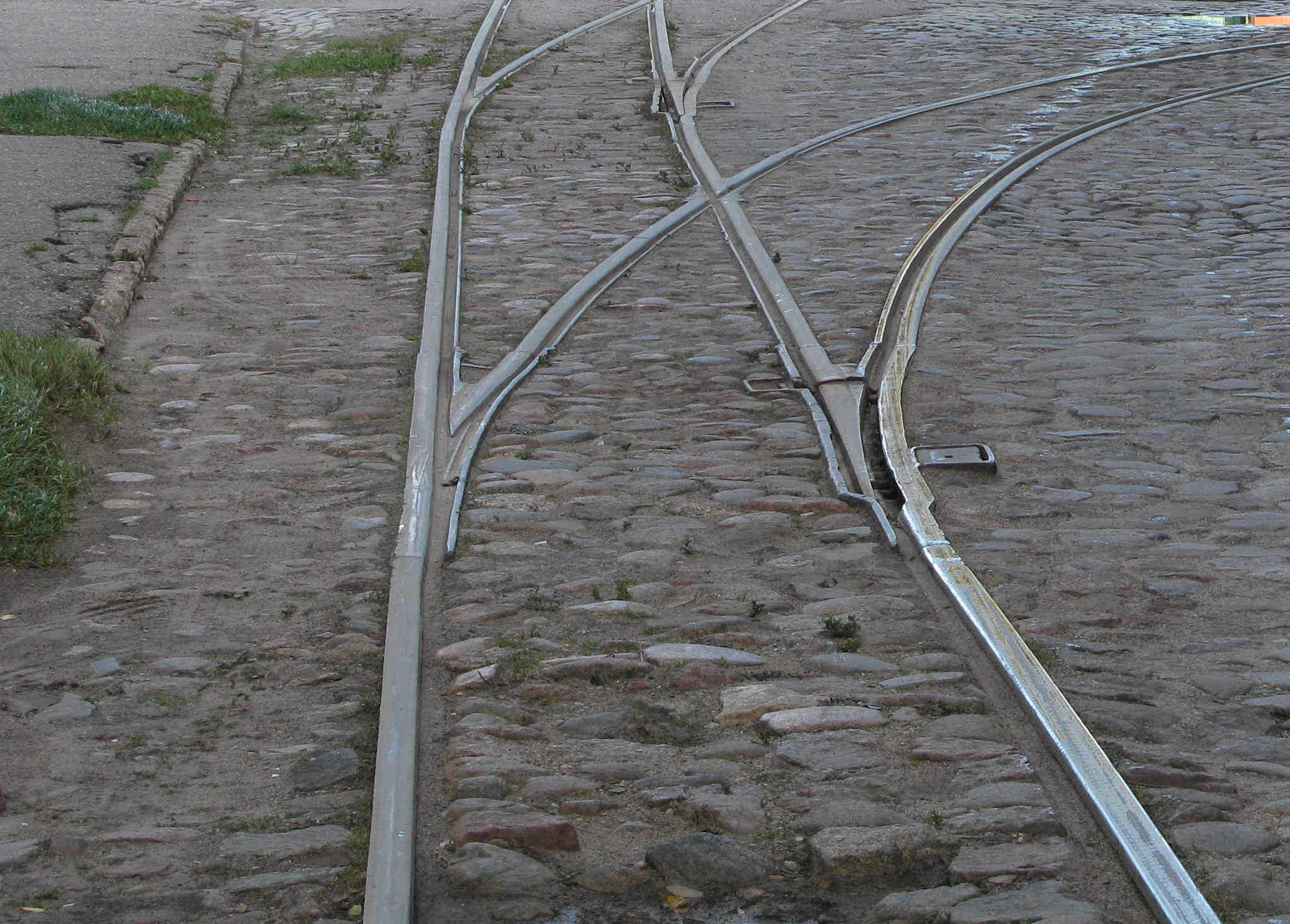 Single blade tram points in Liepāja